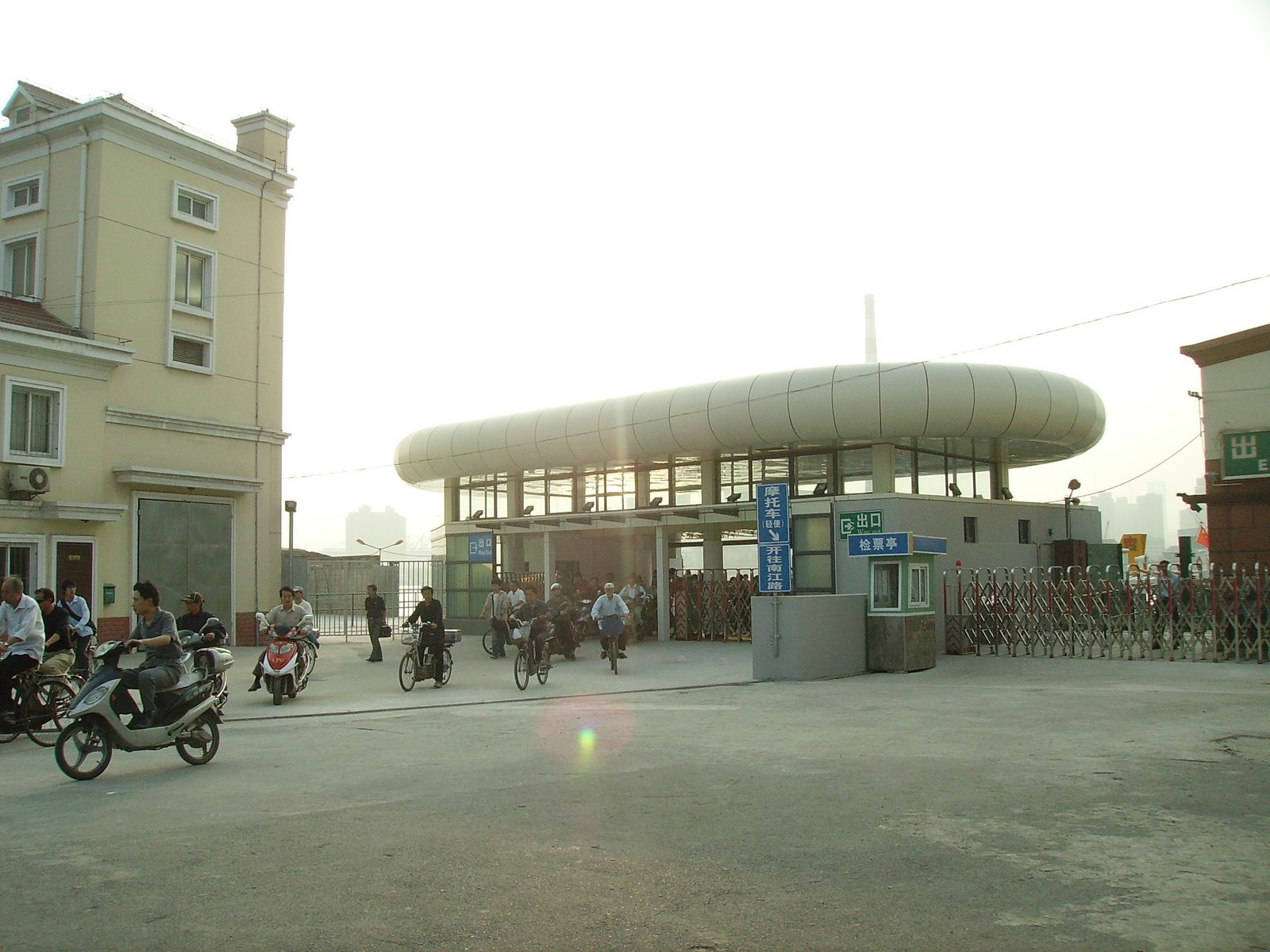 Nanmatou Rd No.2 Ferry